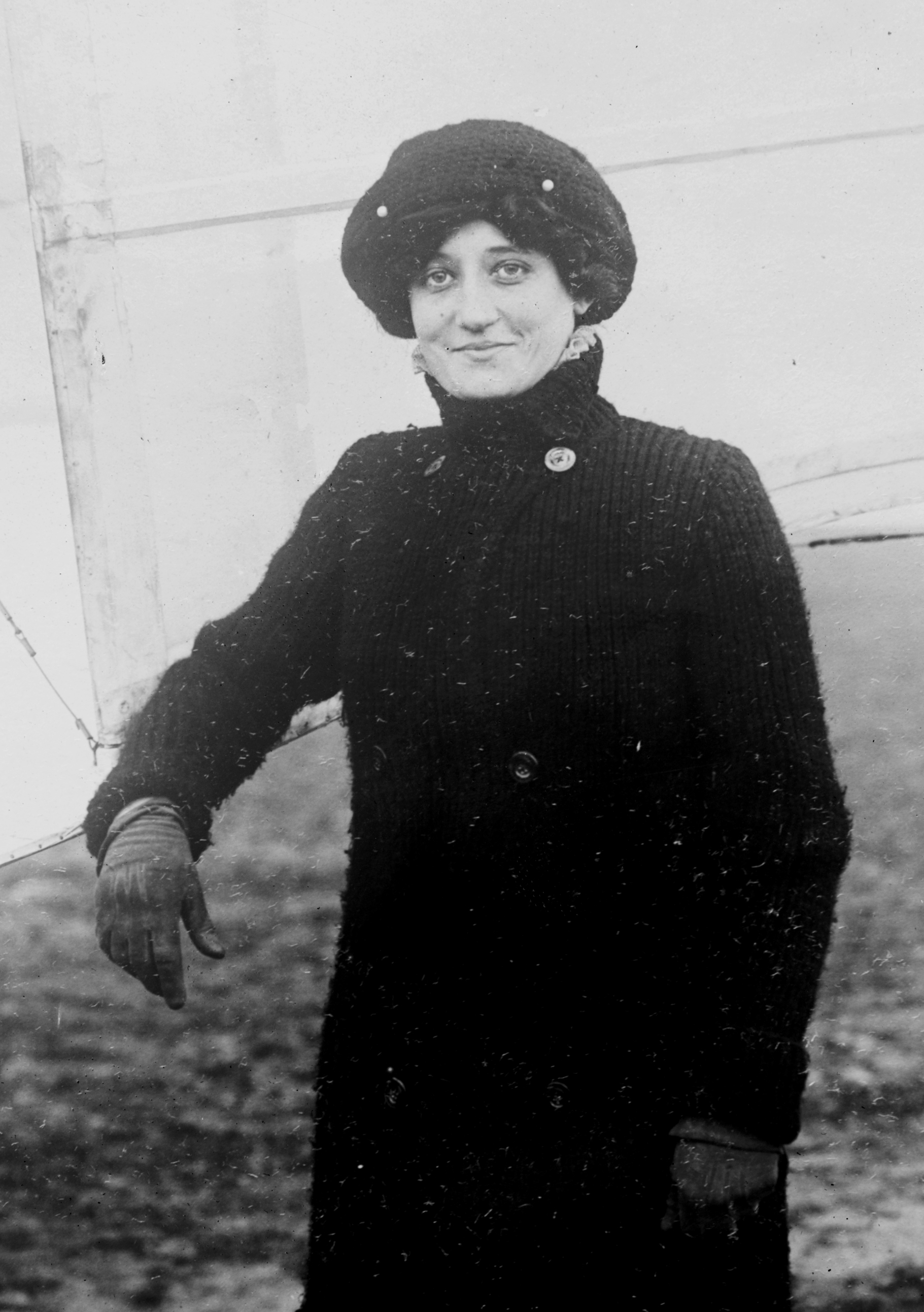 Raymonde de Laroche (1886 – 1919) posing in front of the her plane.